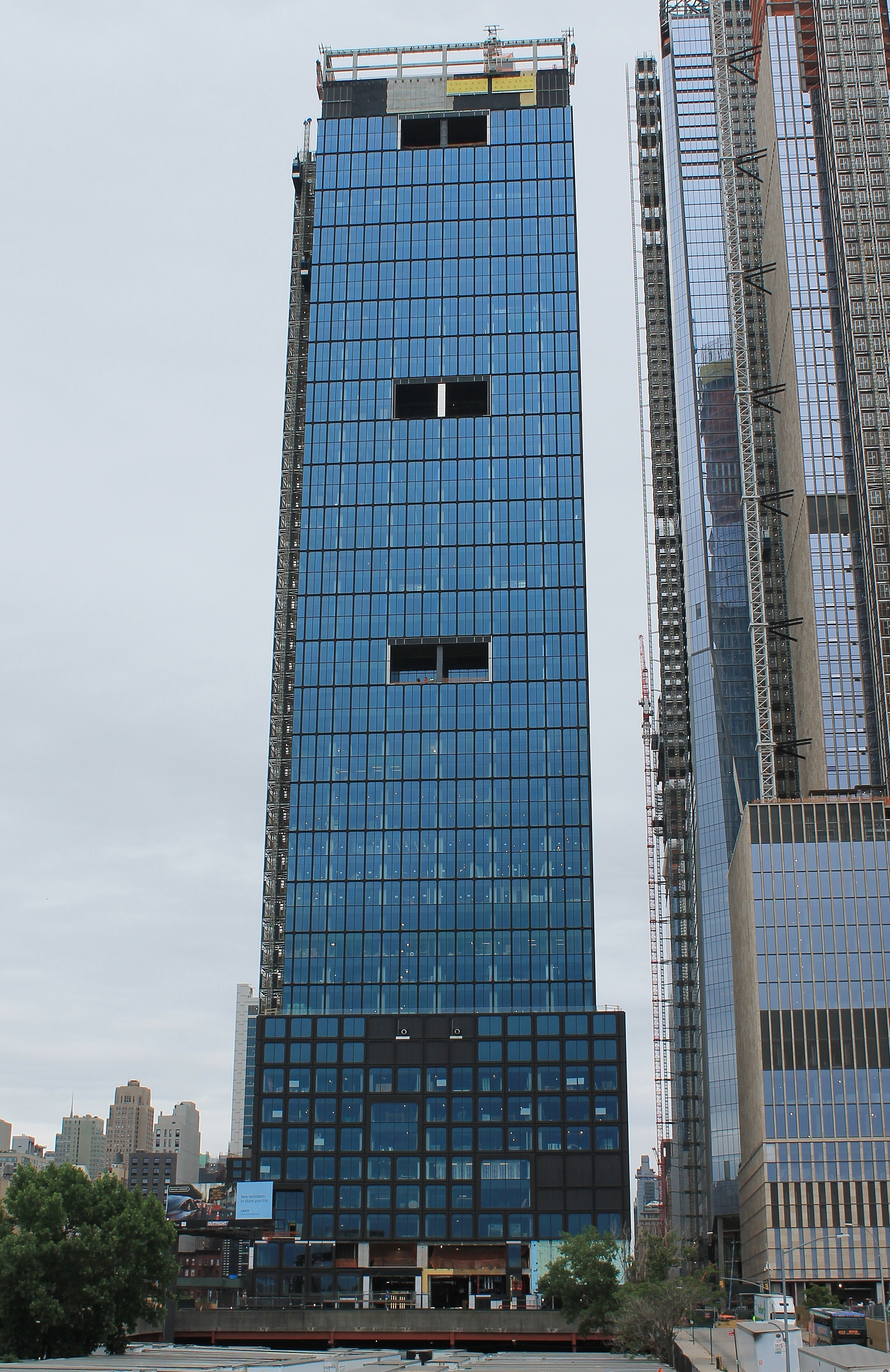 55 Hudson Yards under construction, 27 June 2018.